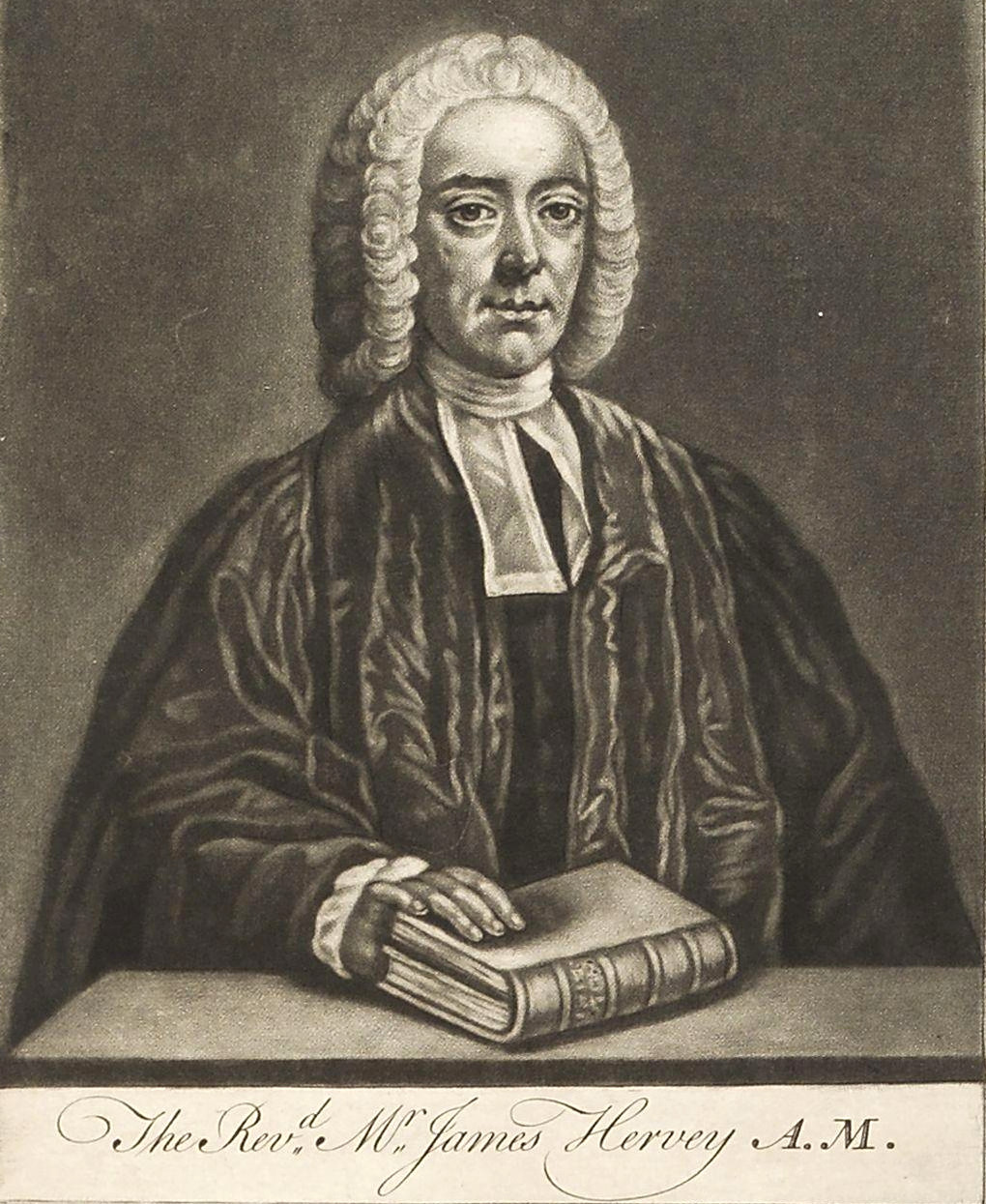 James Hervey; William Romaine; Thomas Jones; Martin Madan, by Thomas Kitchin, given to the National Portrait Gallery, London in 1916. All images in this batch have a known author, but have manually examined for strong evidence that the author was dead before 1939, such as approximate death dates, birth dates, floruit dates, and publication dates.